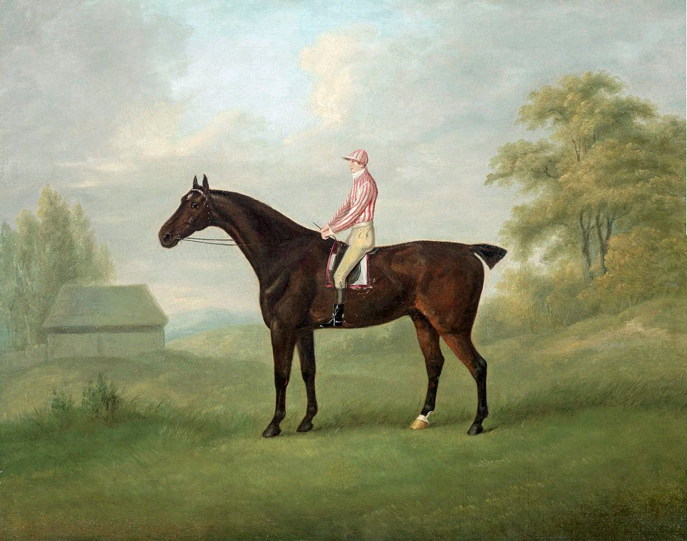 Sir Charles Bunbury's Thoroughbred racehorse "Smolensko" ridden by jockey Tom Goodisson. Smolensko won the Epsom Derby in 1813.